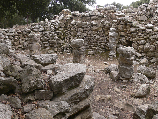 One of the rooms in the Talayottic settlement of Ses Païsses, off the Carretera de Ses Païsses, southeast of Artà in northwest Mallorca. This room is thought to belong to the last Talayotic period (between 8th–5th centuries BC), whereas the central talayot to which it is joined by a low passageway, is the earliest part of the site, dating to between 1300BC–1000BC.